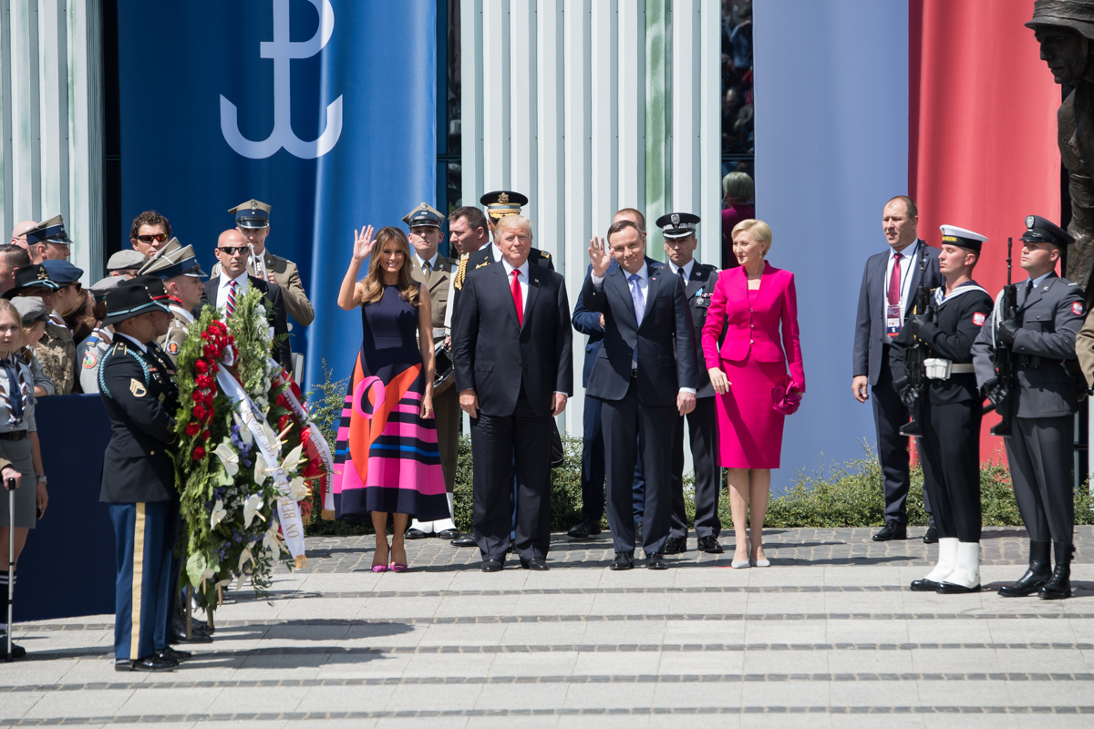 President Donald J. Trump, First Lady Melania Trump, President Andrzej Duda, and First Lady Agata Kornhauser-Duda | July 6, 2017 (Official White House Photo by Andrea Hanks)